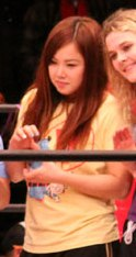 Professional wrestler Yuhi at a Stardom event.